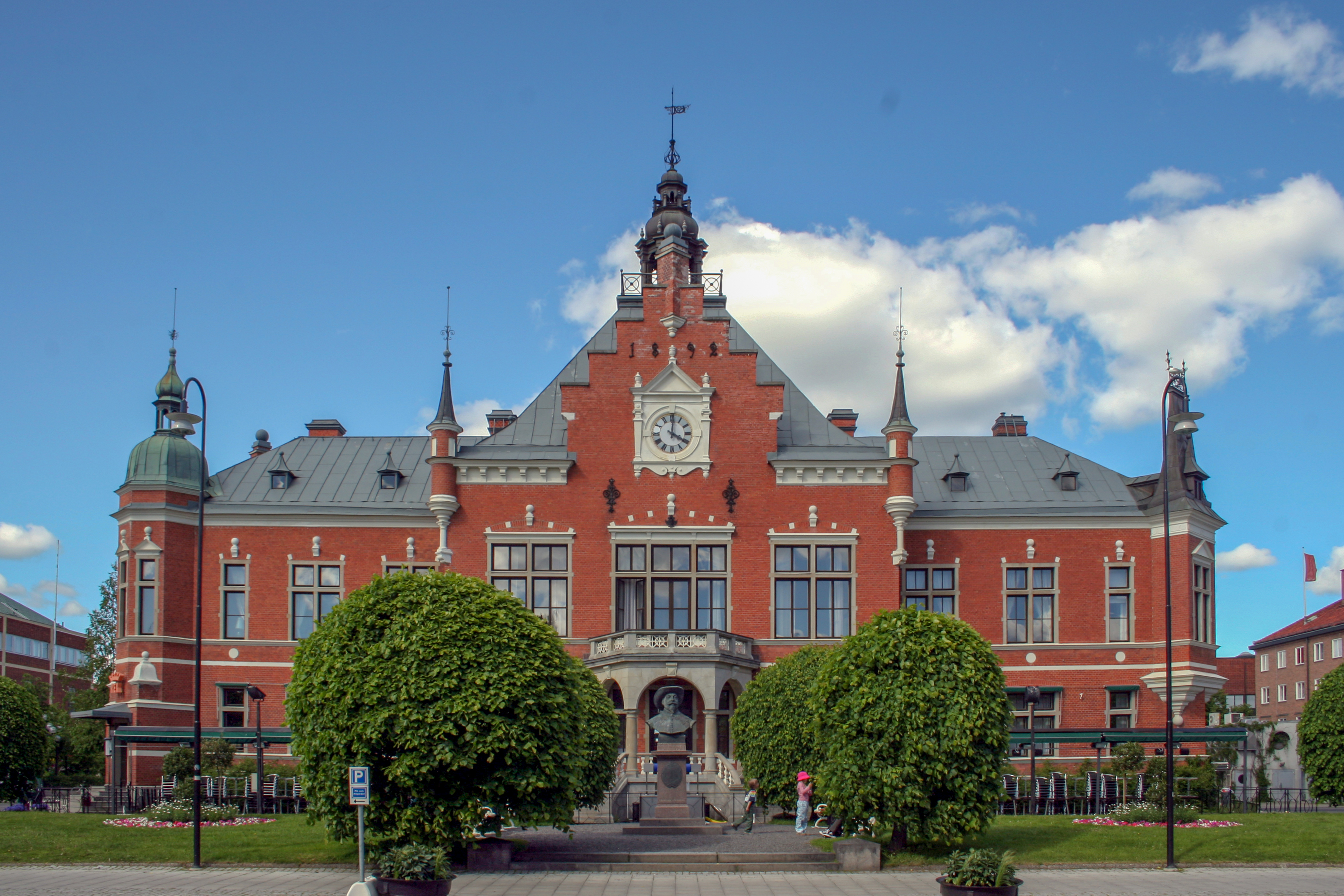 Umeå Rådhus, Umeå, Sweden, view from Rådhusparken south of the Rådhus